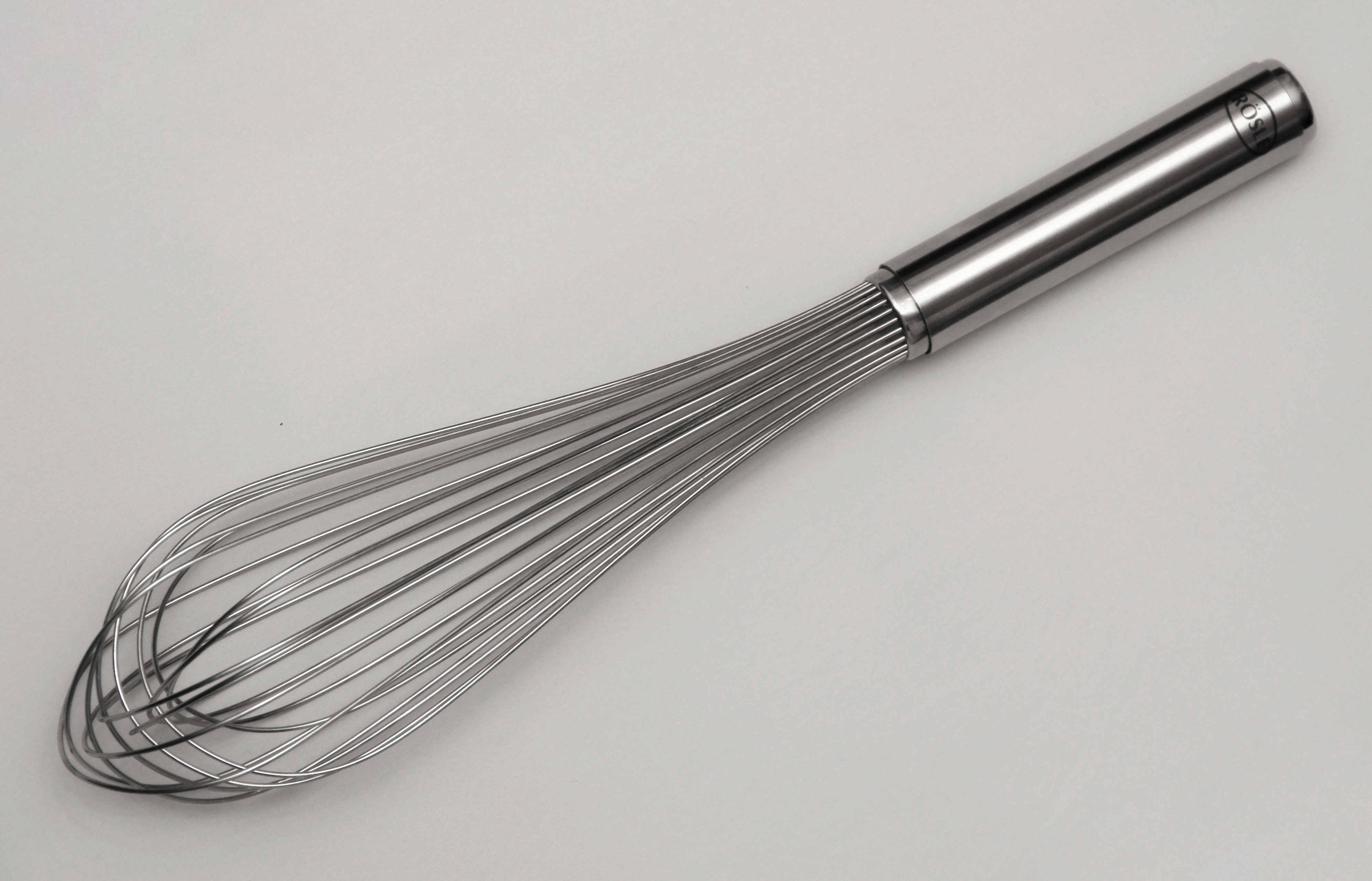 Roesle egg-beater